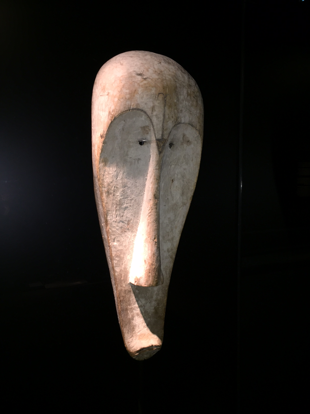 Fang or Makina (Oseba) people. Ngil Mask. River Mbini (Rio Muni), 19th century. Wood, kaolin, 75 x 29 x 19 cm. Ethnological Museum Berlin, Nr. III C 6000 [1]